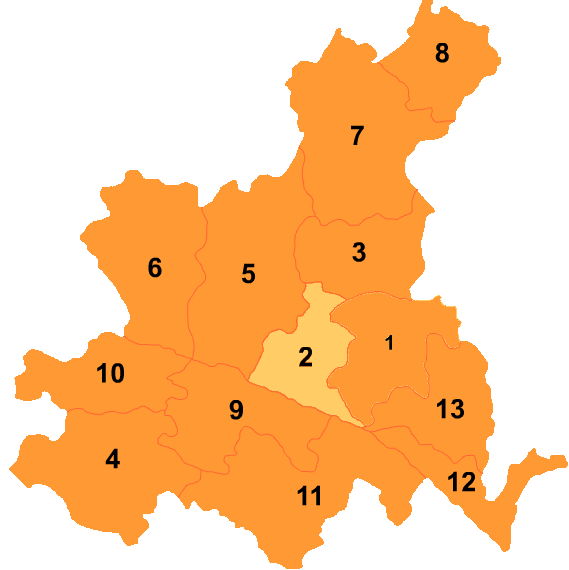 Gejiu in Honghe Autonomous Prefecture